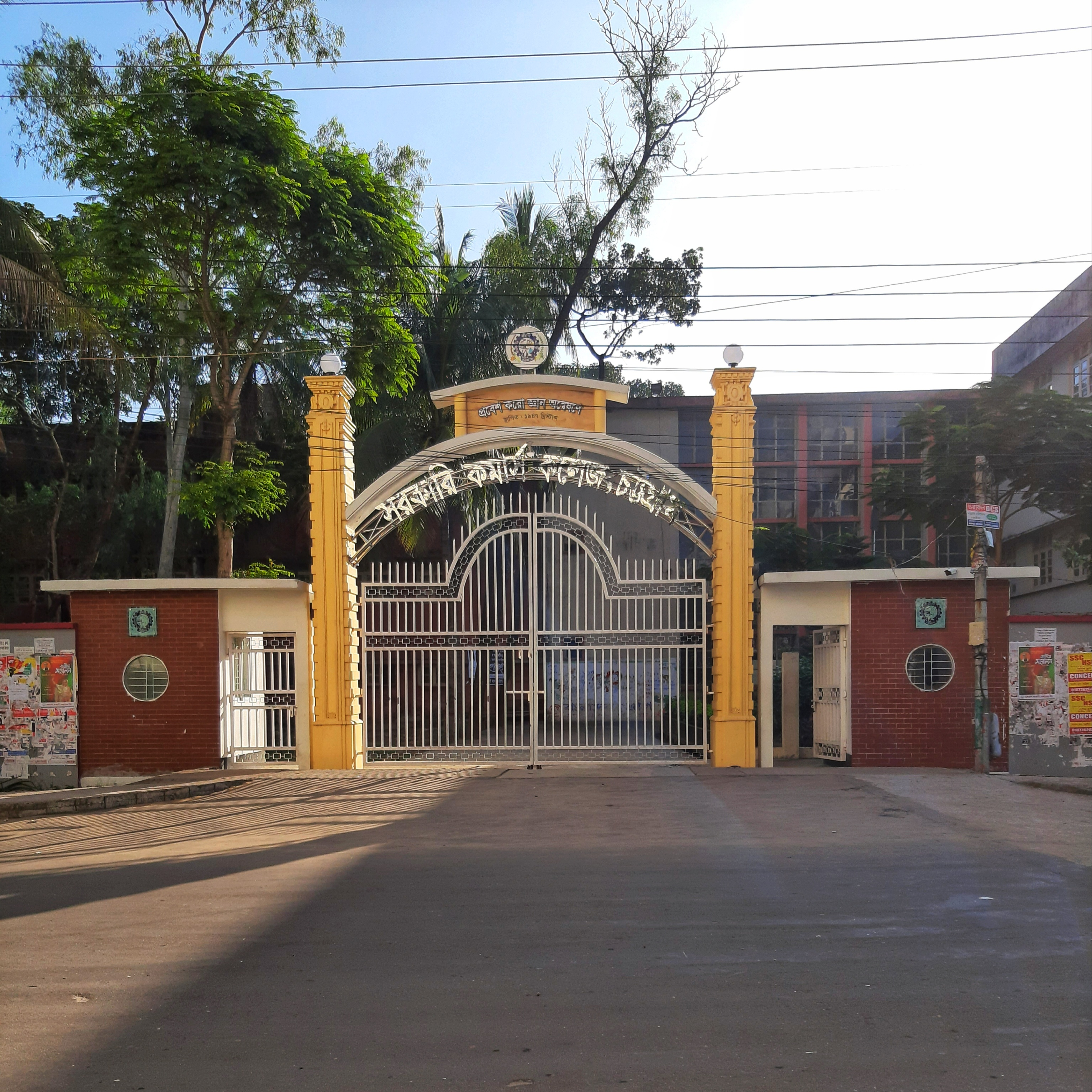 Main Gate of Govt. College of Commerce Chattogram